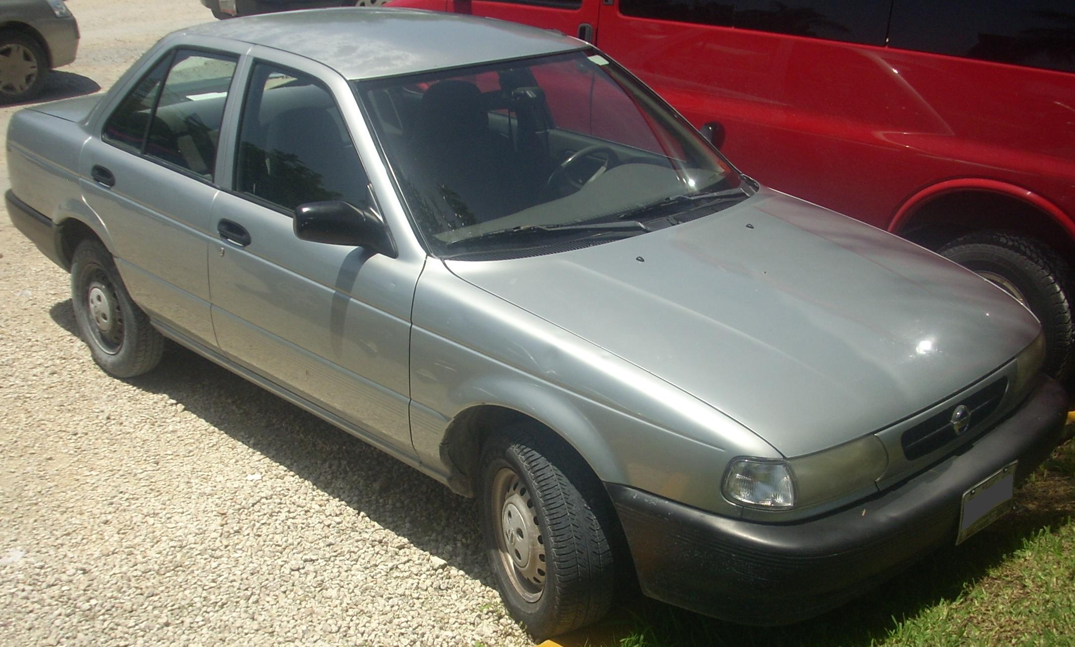 2003-2004 Nissan Tsuru photographed in Cancun, Quintana Roo, Mexico